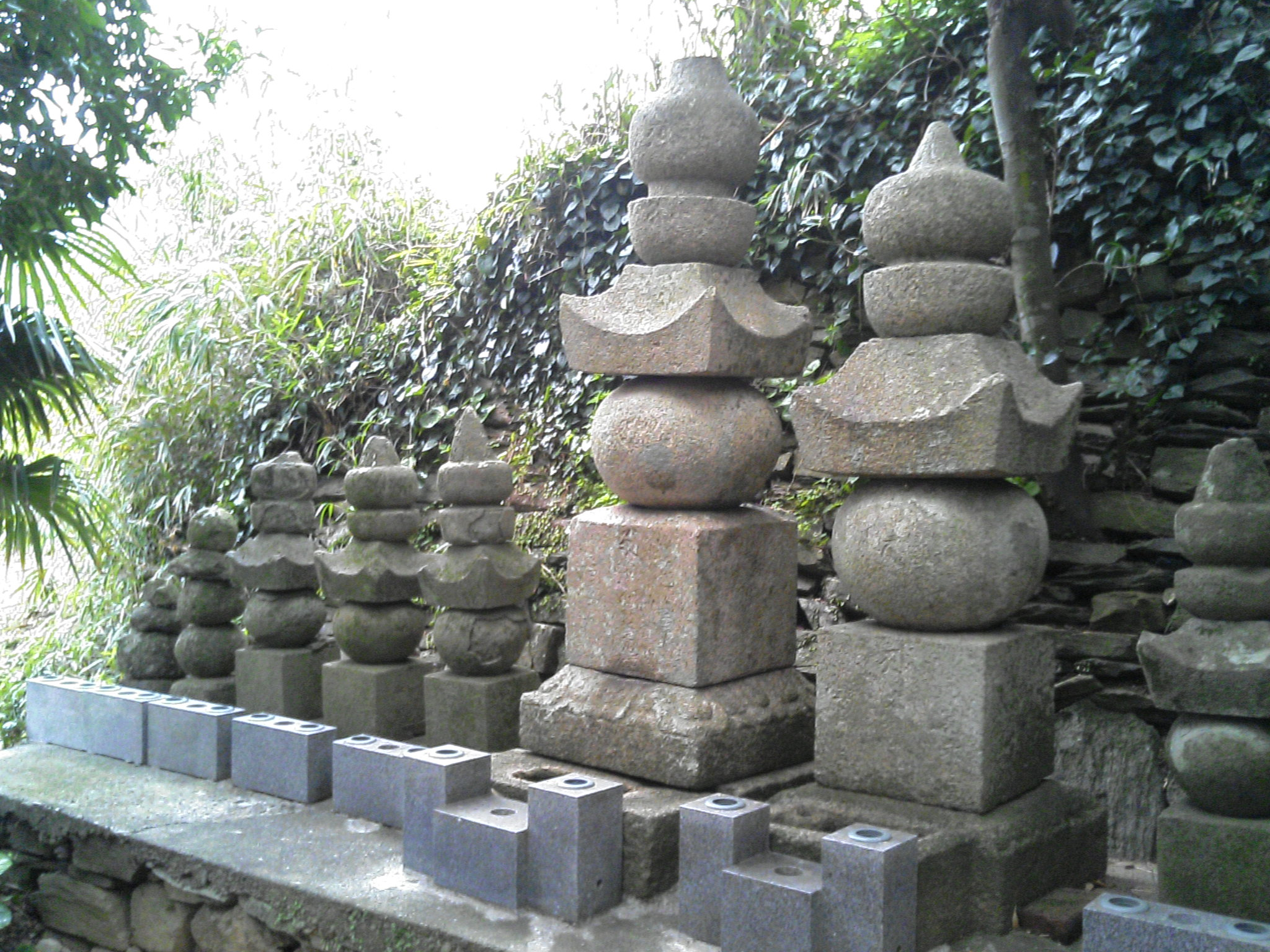 Towers of the Five Elements (五輪塔 Gorintō) at the Myōrakuji (妙楽寺) temple in Ikata, Ehime, Japan. A Town-Designated Cultural Heritage Site (町指定重要文化財 Chō shitei jūyō bunkazai).